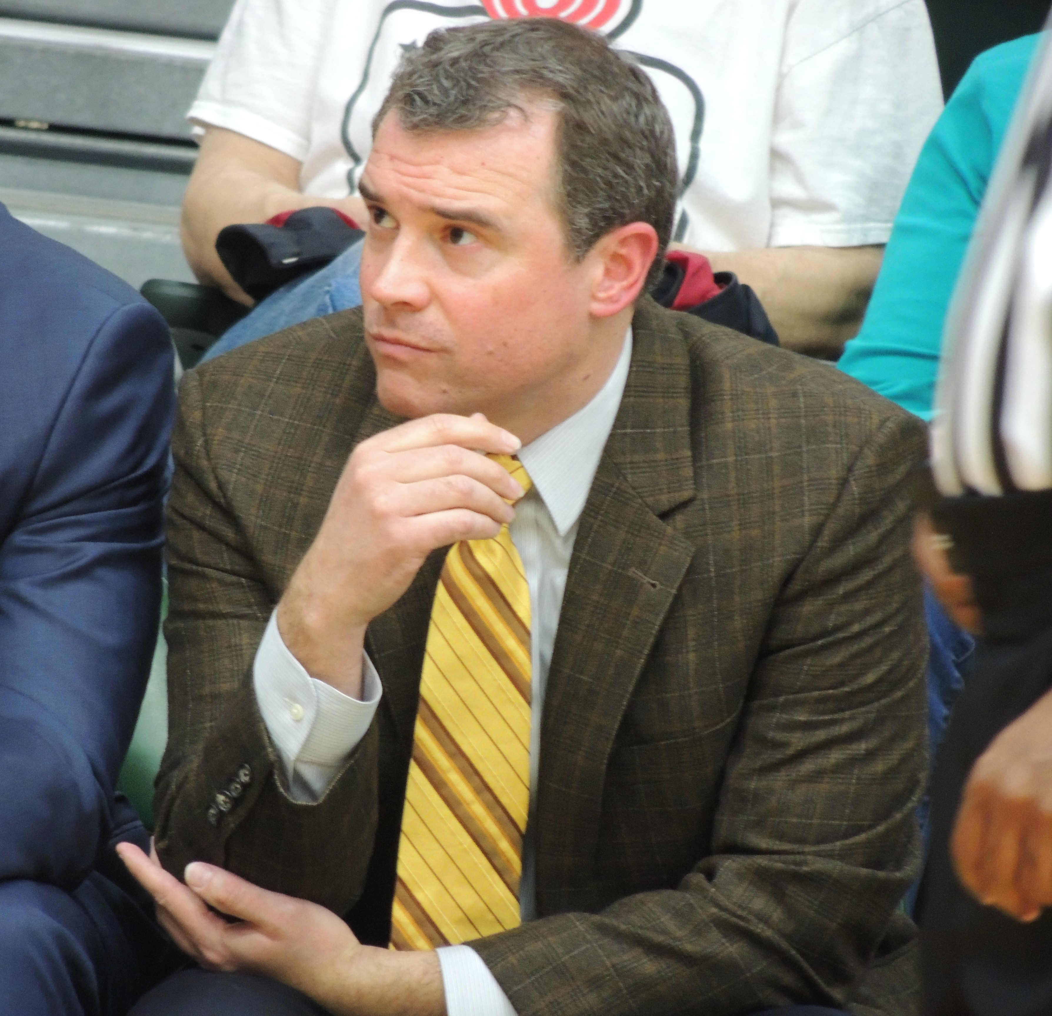 Lehigh men's basketball coach Brett Reed on the bench during a February, 2018 game